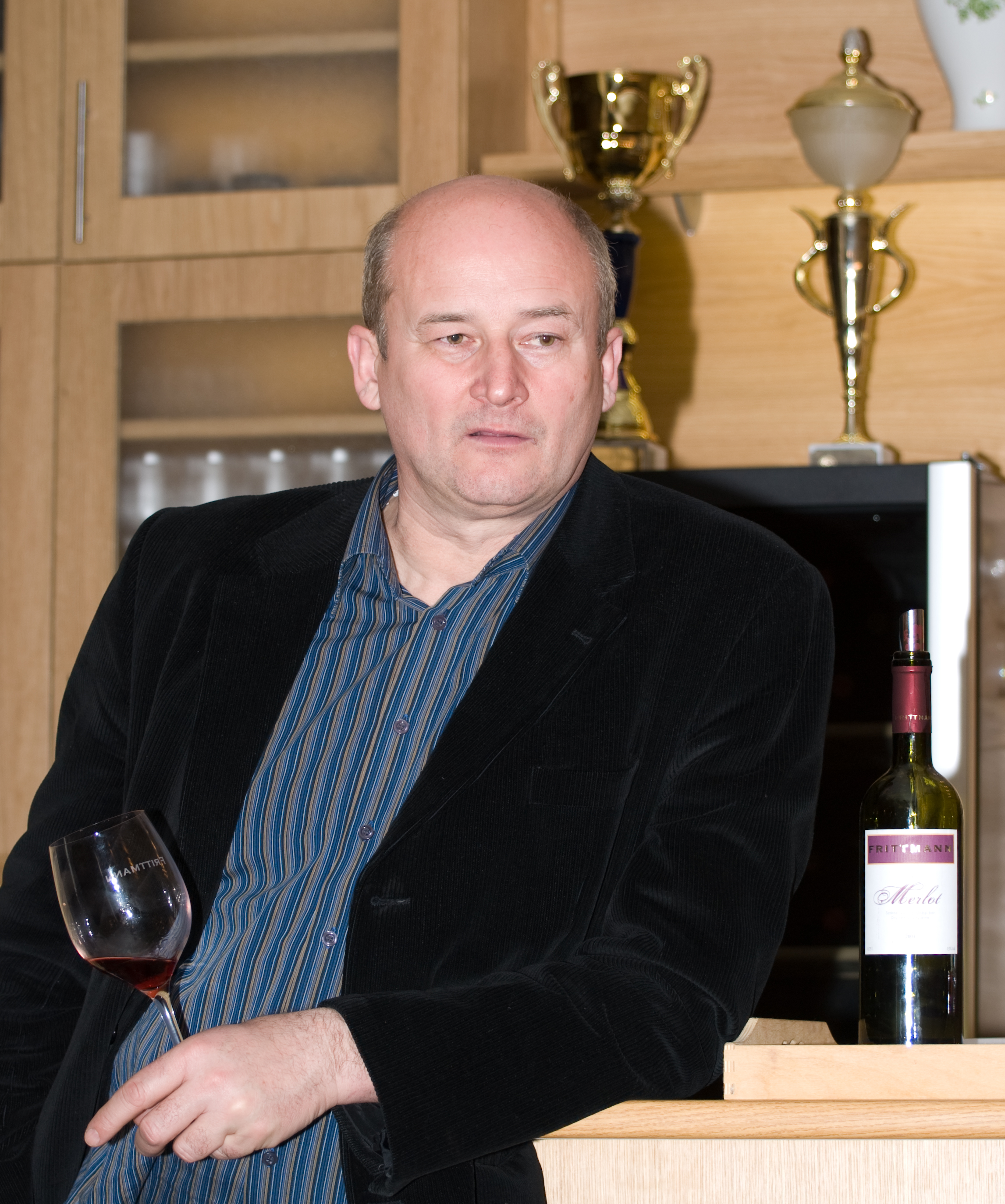 en: Frittmann János, Hungarian award-winning wine producer of the year 2007 hu: Frittmann János, magyar borász, a 2007-es év díjnyertes borásza